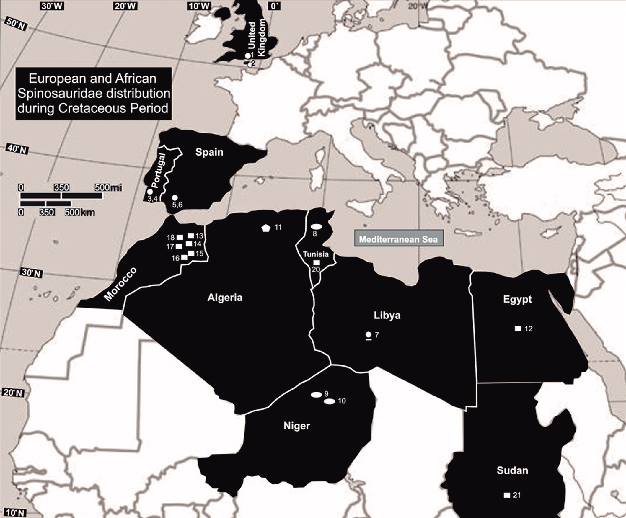 Baryonychinae and Spinosaurinae records distribution in Europe and North Africa during middle Cretaceous. 1, Barremian Baryonyx walkeri; 2, Baryonychinae; 3, 5, 6; 4, Baryonyx; 7, 8; 9, Suchomimus; 10-14, Spinosaurus aegyptiacus; 15-17, 19-21,Spinosauridae indet.; 18, Spinosaurinae.